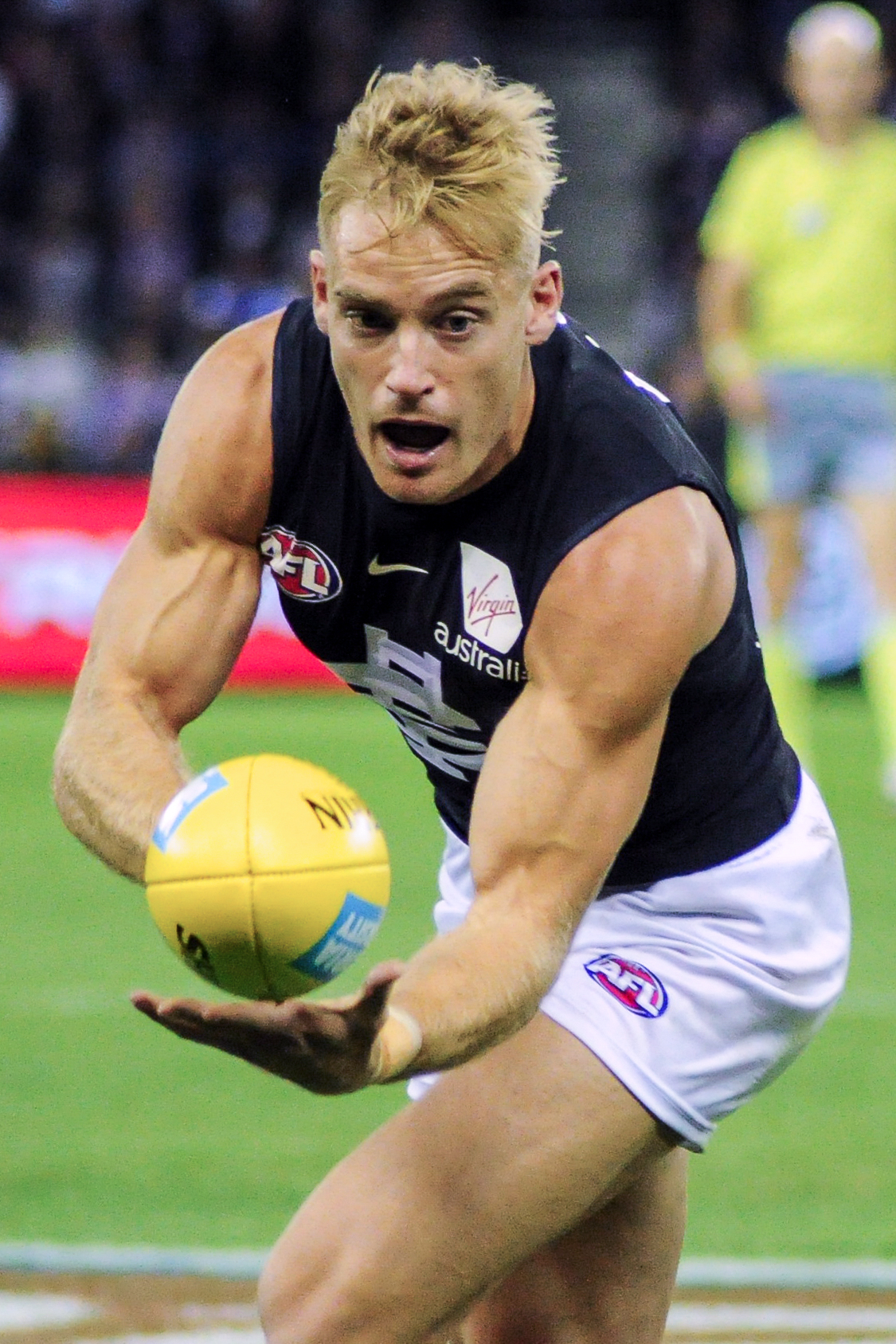 Sam Kerridge during the AFL round six match between the Western Bulldogs and Carlton on Friday, 27 April 2018 at Etihad Stadium in Melbourne, Victoria.